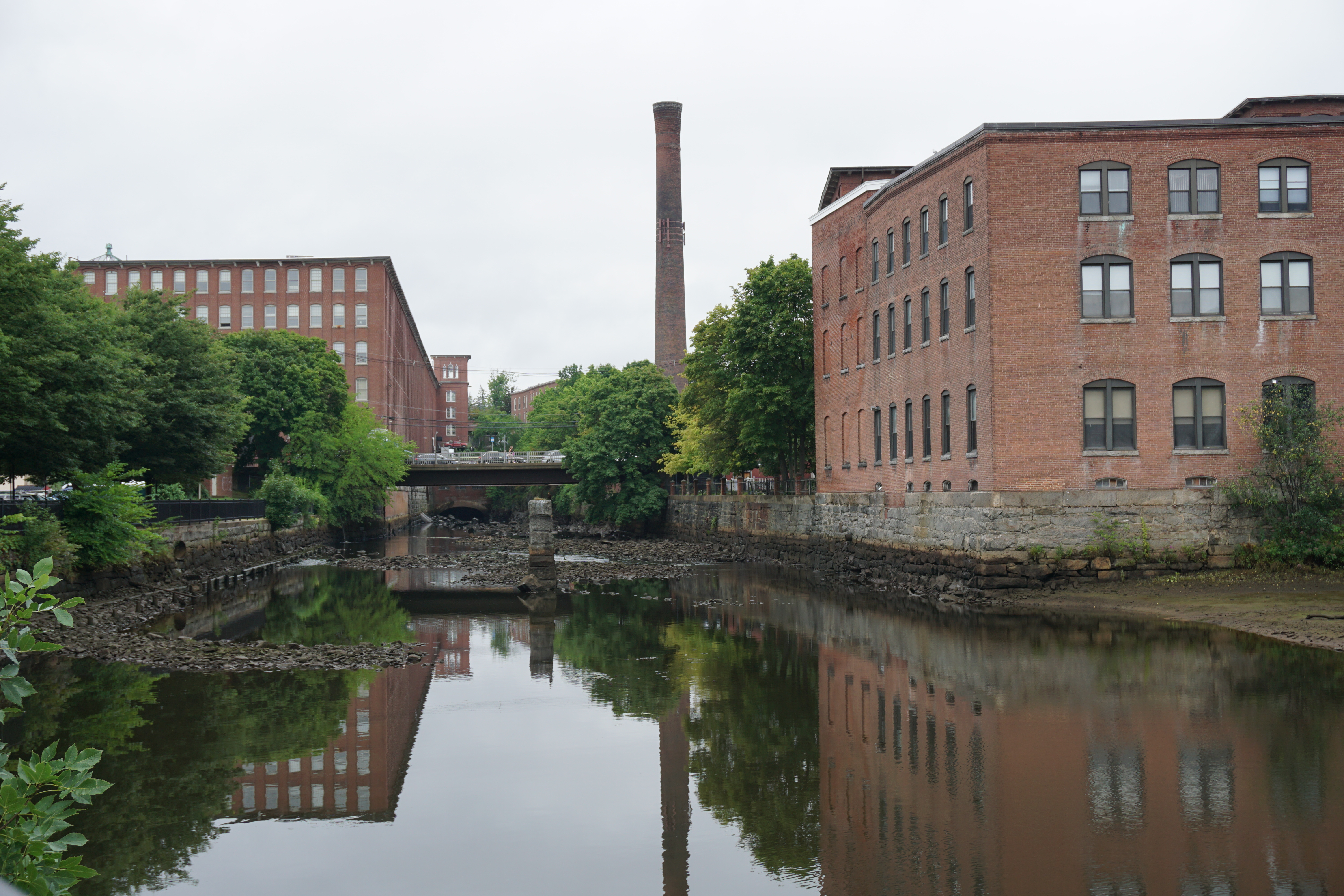 Cocheco River from Henry Law Park in Dover, New Hampshire in August 2016